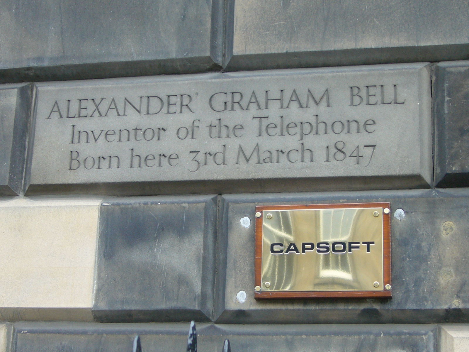 Inscribed stone on Alexander Graham Bell's birthplace, Charlotte Square, Edinburgh